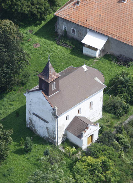 Borsod-Abaúj-Zemplén County, Hernádbűd, Hungary, aerial photography